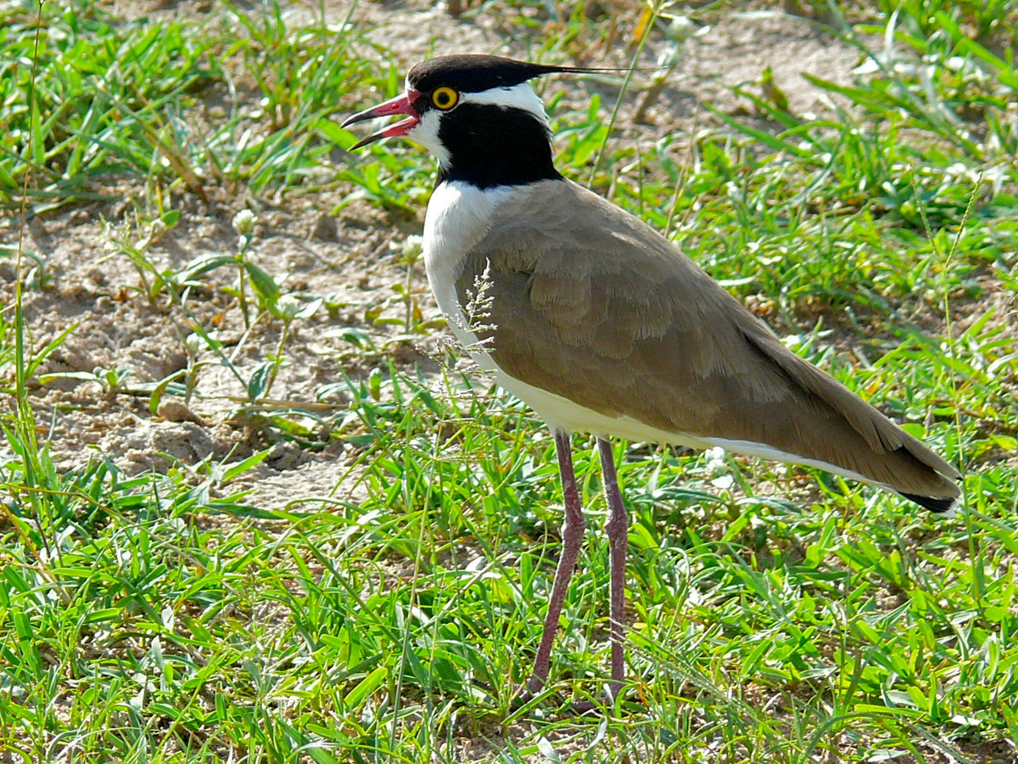 Murchison's Falls NP, UGANDA